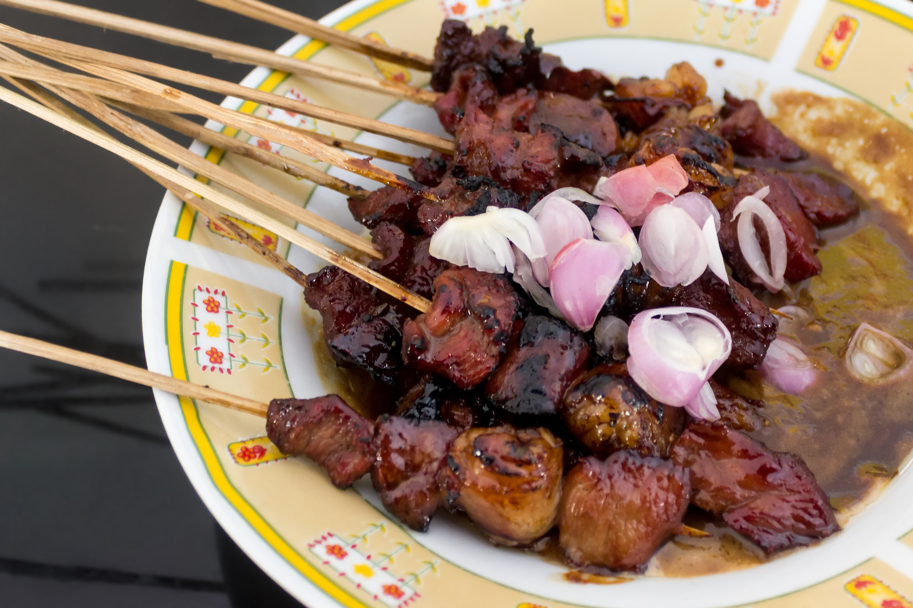 Mutton satay from H. Faqih, Jombang, 2017-09-19